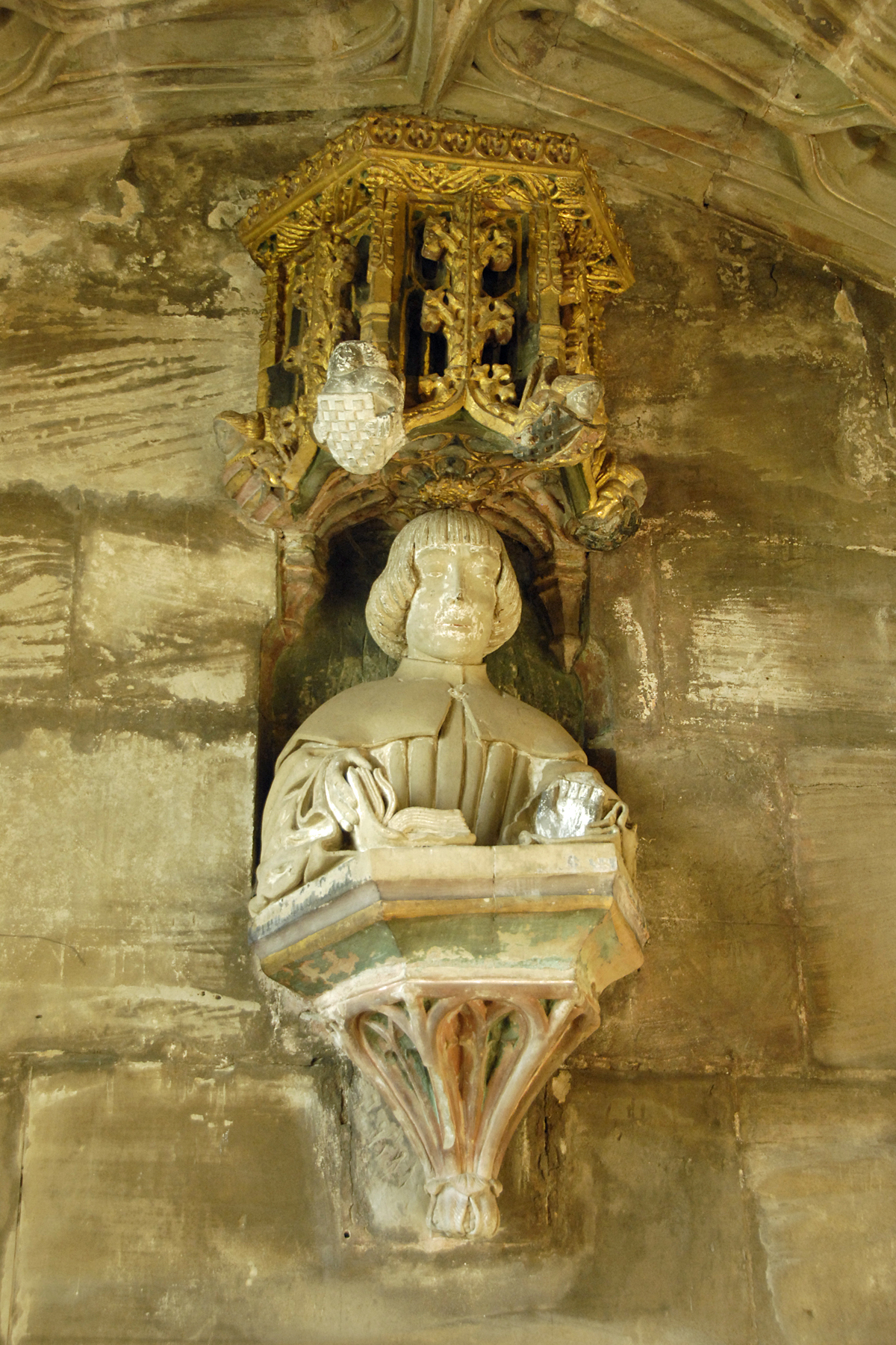 Bust of Arthur Vernon, MA (Cantab) in the south chapel of St Bartholomew's parish church, Tong, Shropshire